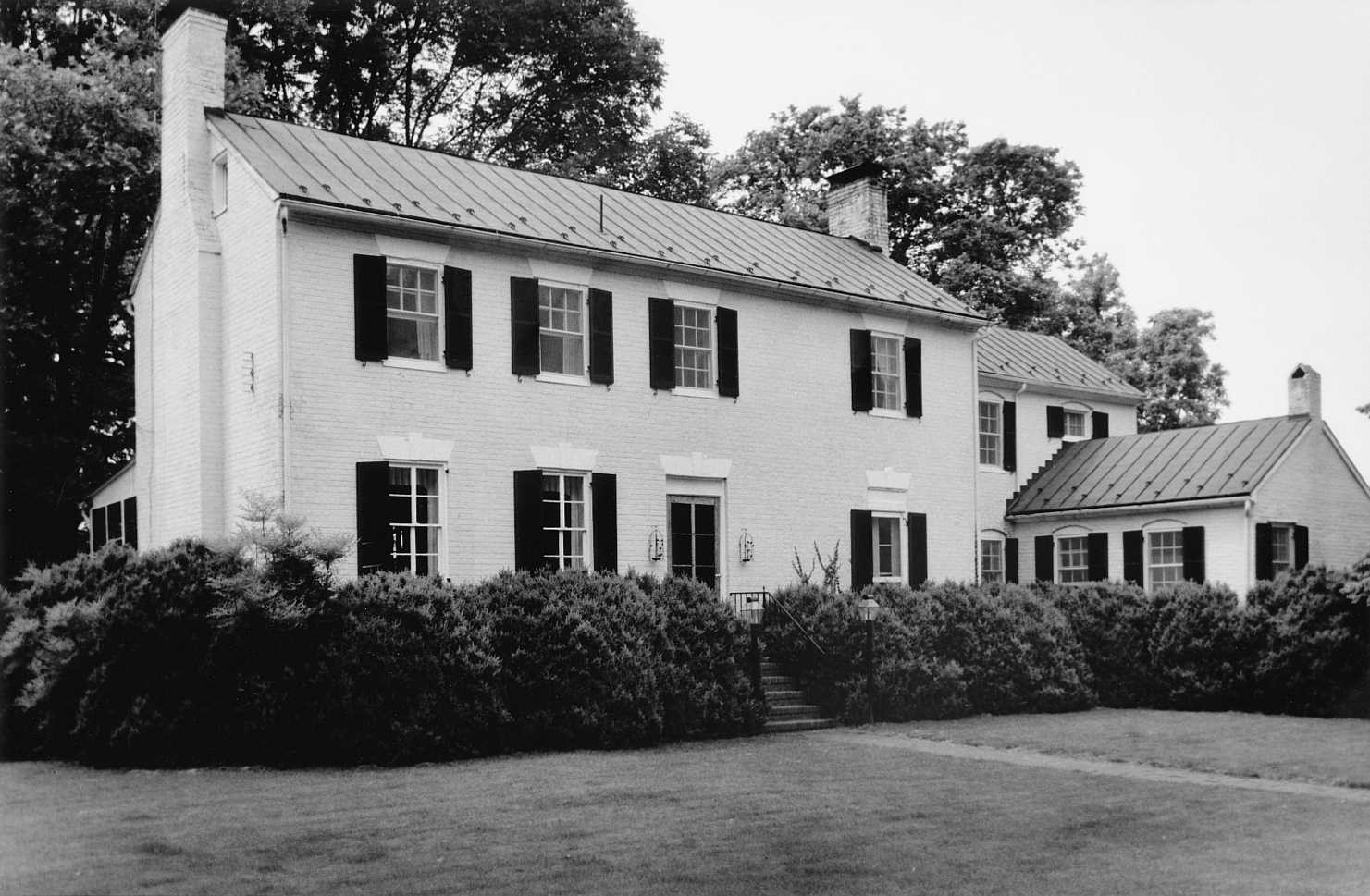 Birthplace of President Zachary Taylor (wings to the right added later)